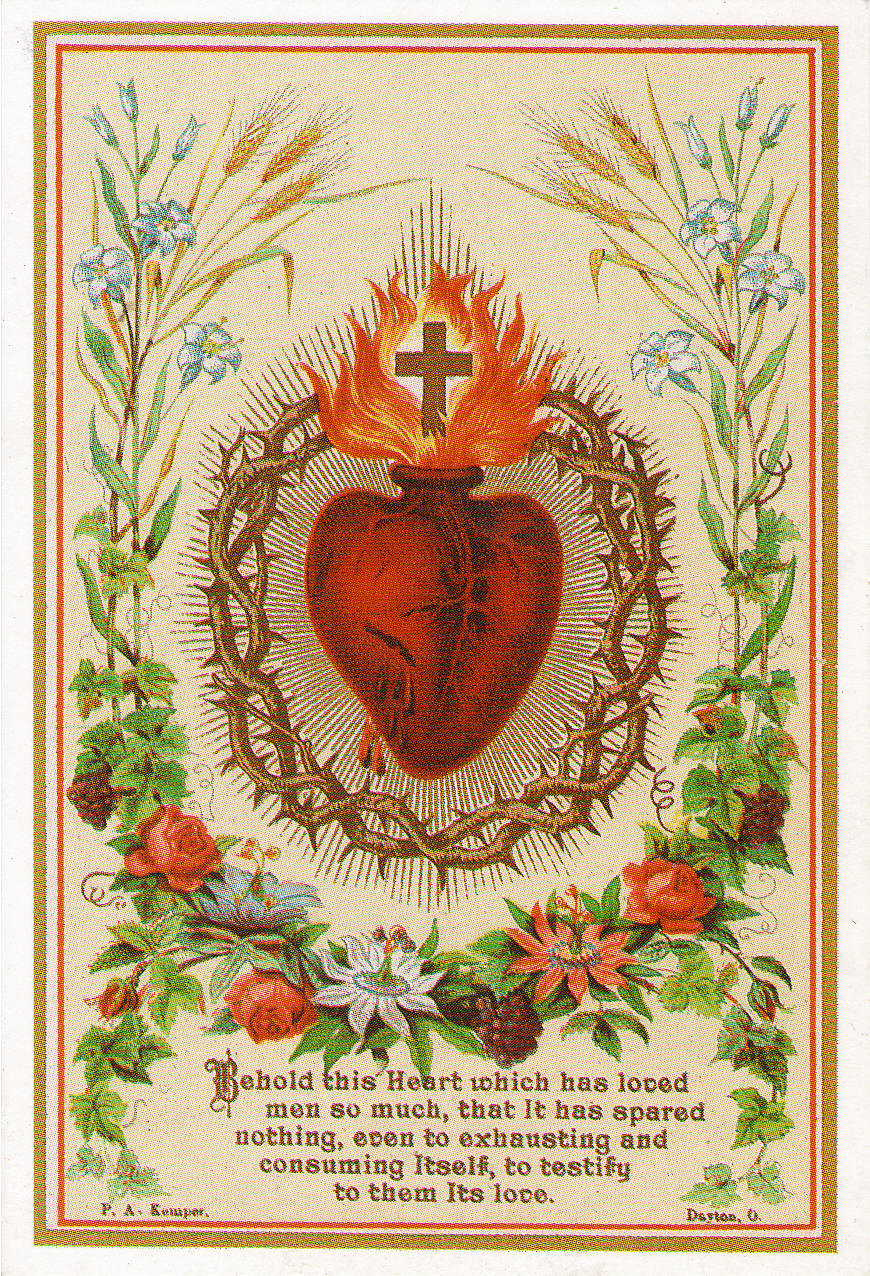 Sacred Heart holy card